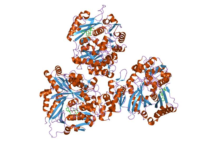 Cartoon representation of the molecular structure of protein registered with 1w96 code.